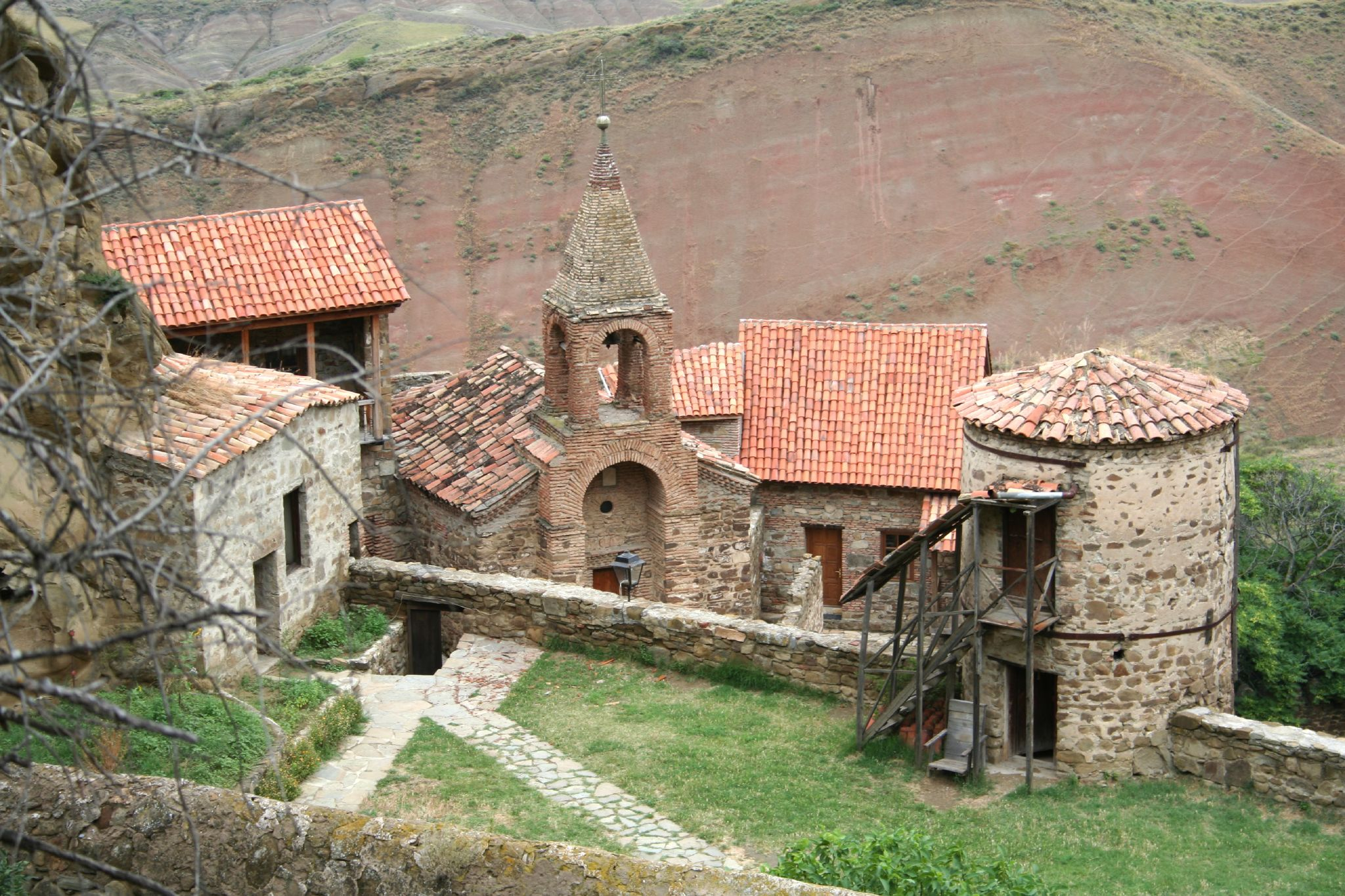 David Garedzha